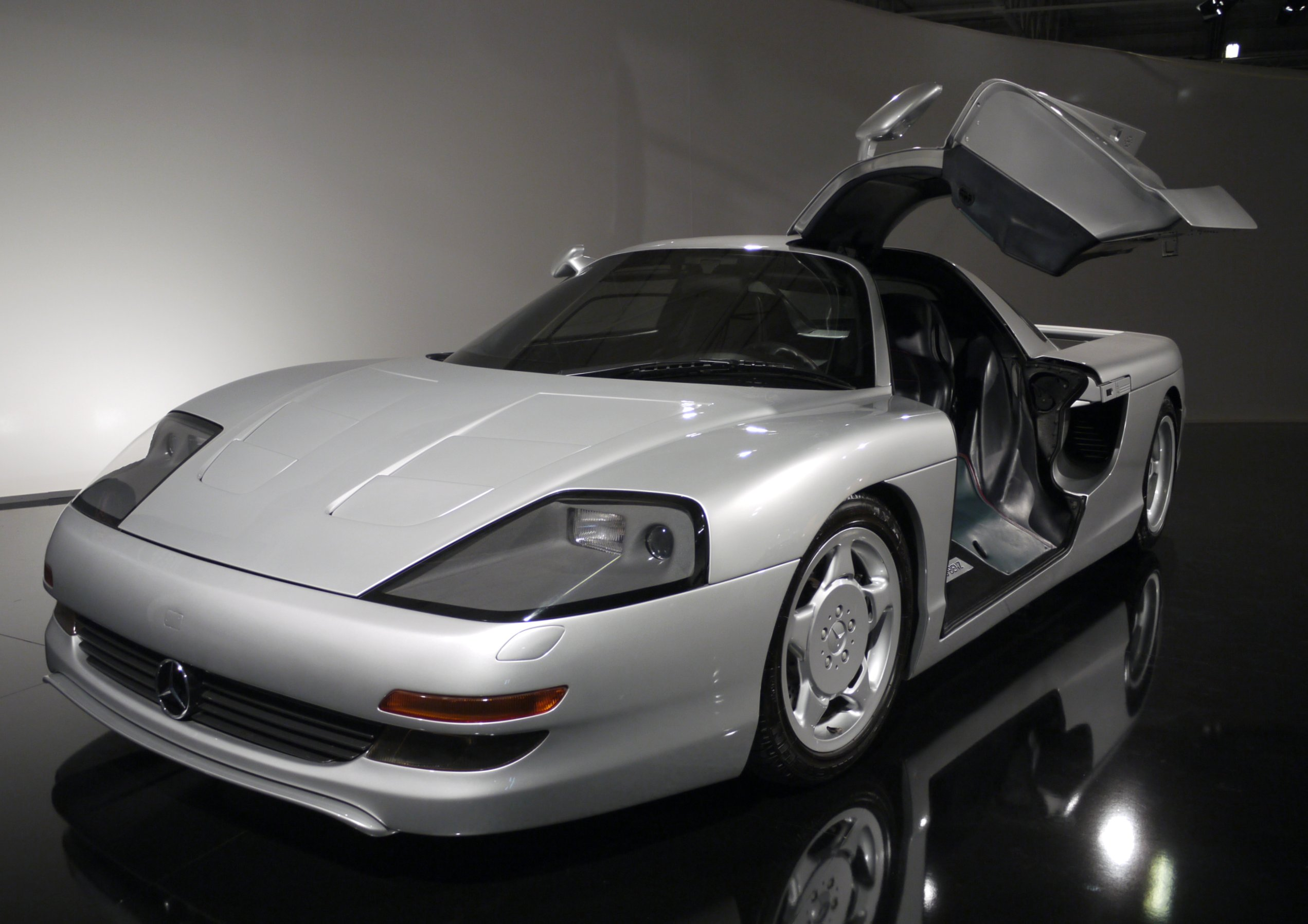 1991 Mercedes-Benz C 112 concept. Spec.: - V12 engine - 5987 cc - 408 bhp - Top speed: 310 Km/h (193 mph)